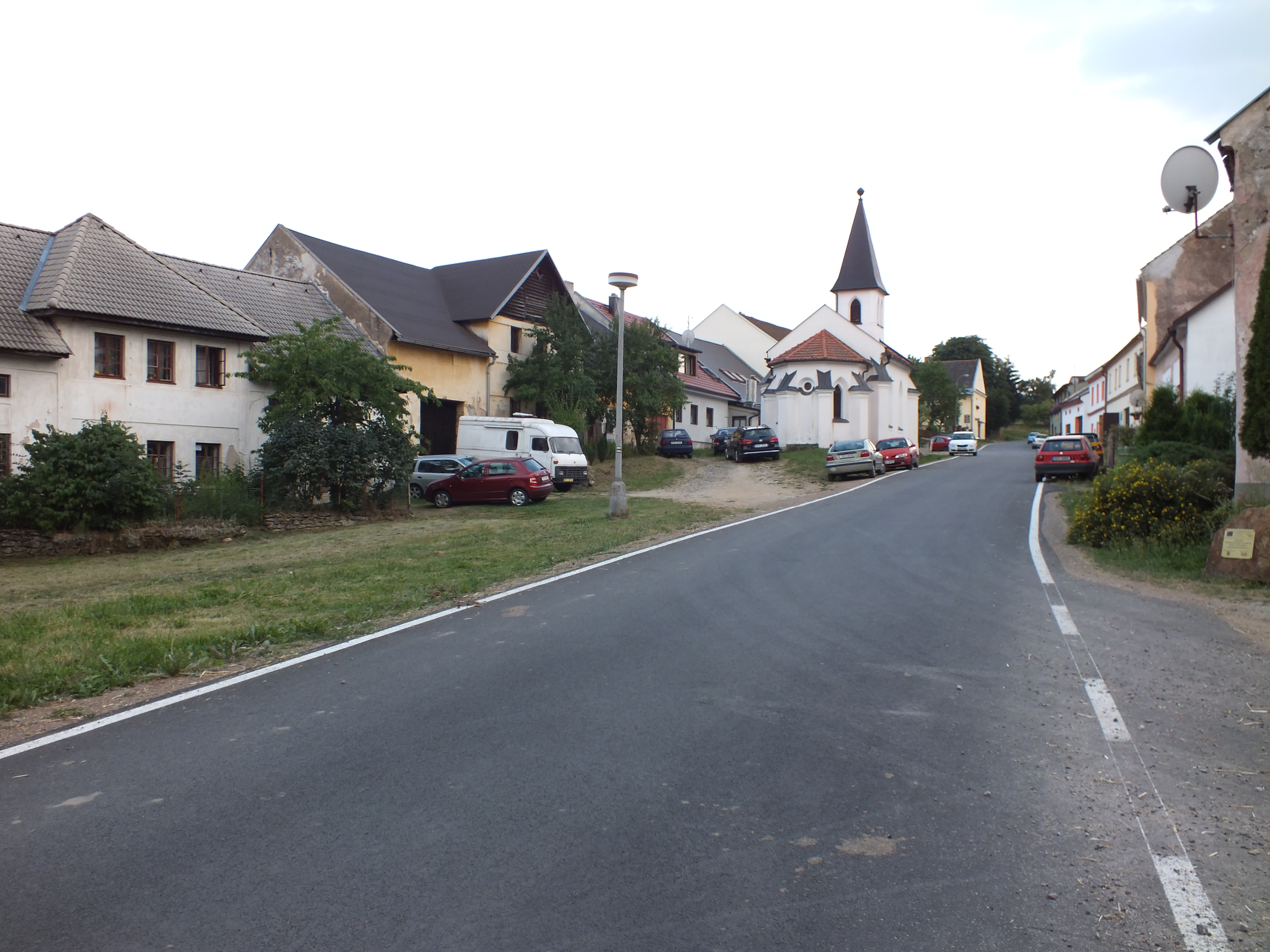 Pravětín - the northern view of the square